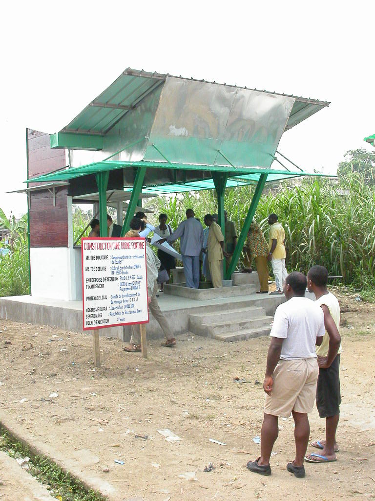 Borne Fontaine, Bessengue, Douala, November 2003. Design by Danielle Douwta-Kotto; an art commission by doual'art. Photo by Sandrine Dole.